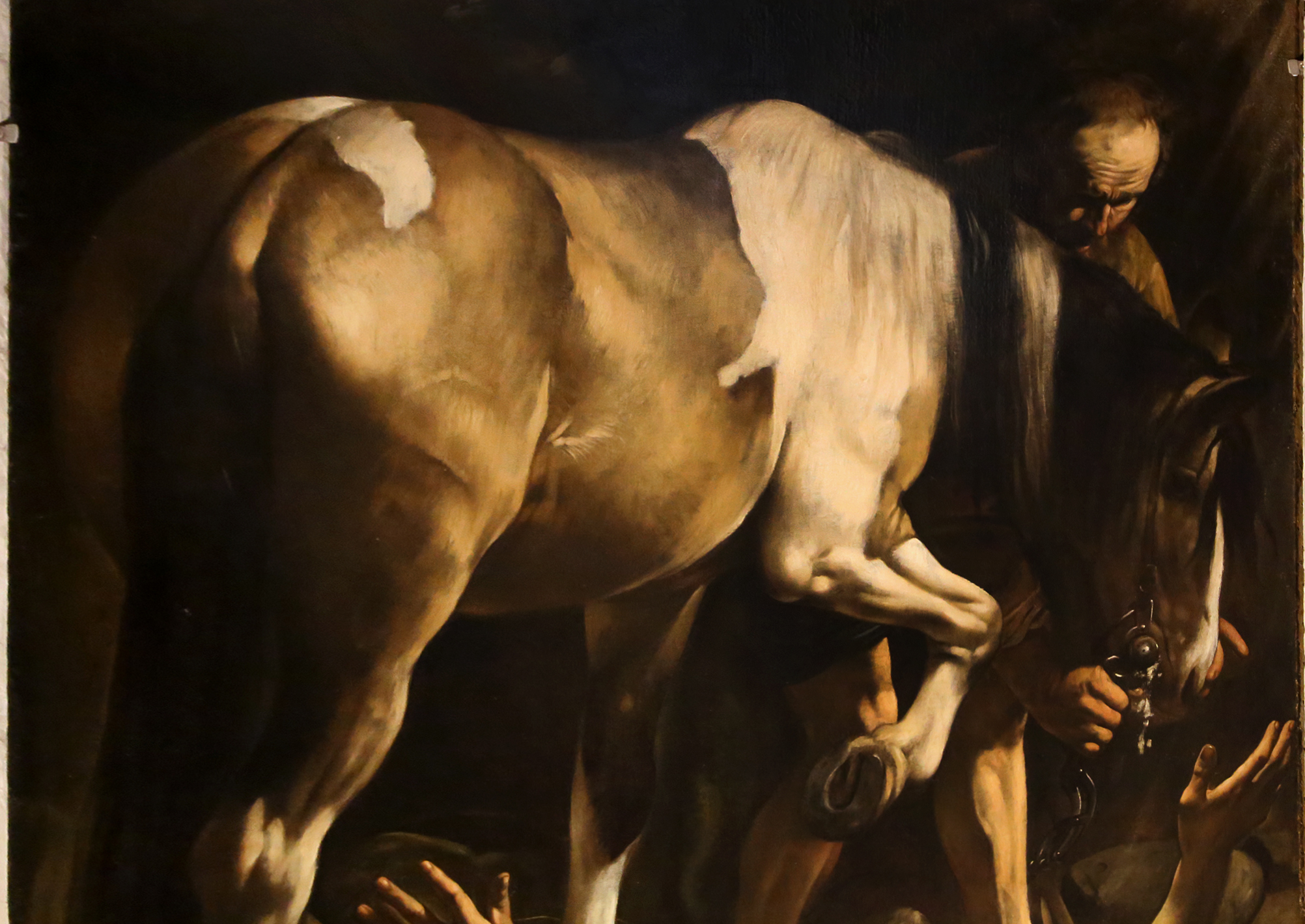 Santa Maria del Popolo (Rome) - Cappella Cerasi